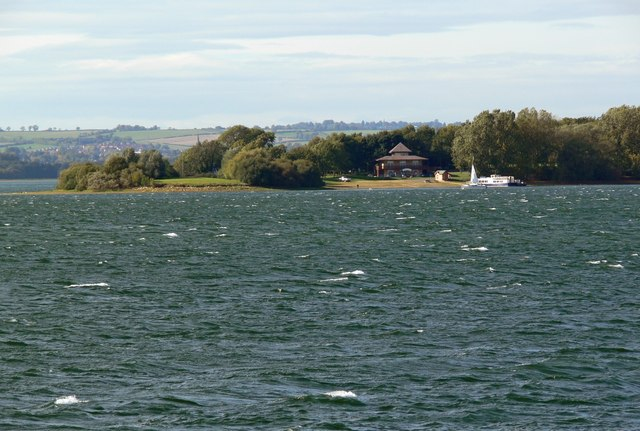 View towards Whitwell Lodge. Looking west from the dam at Rutland Water.